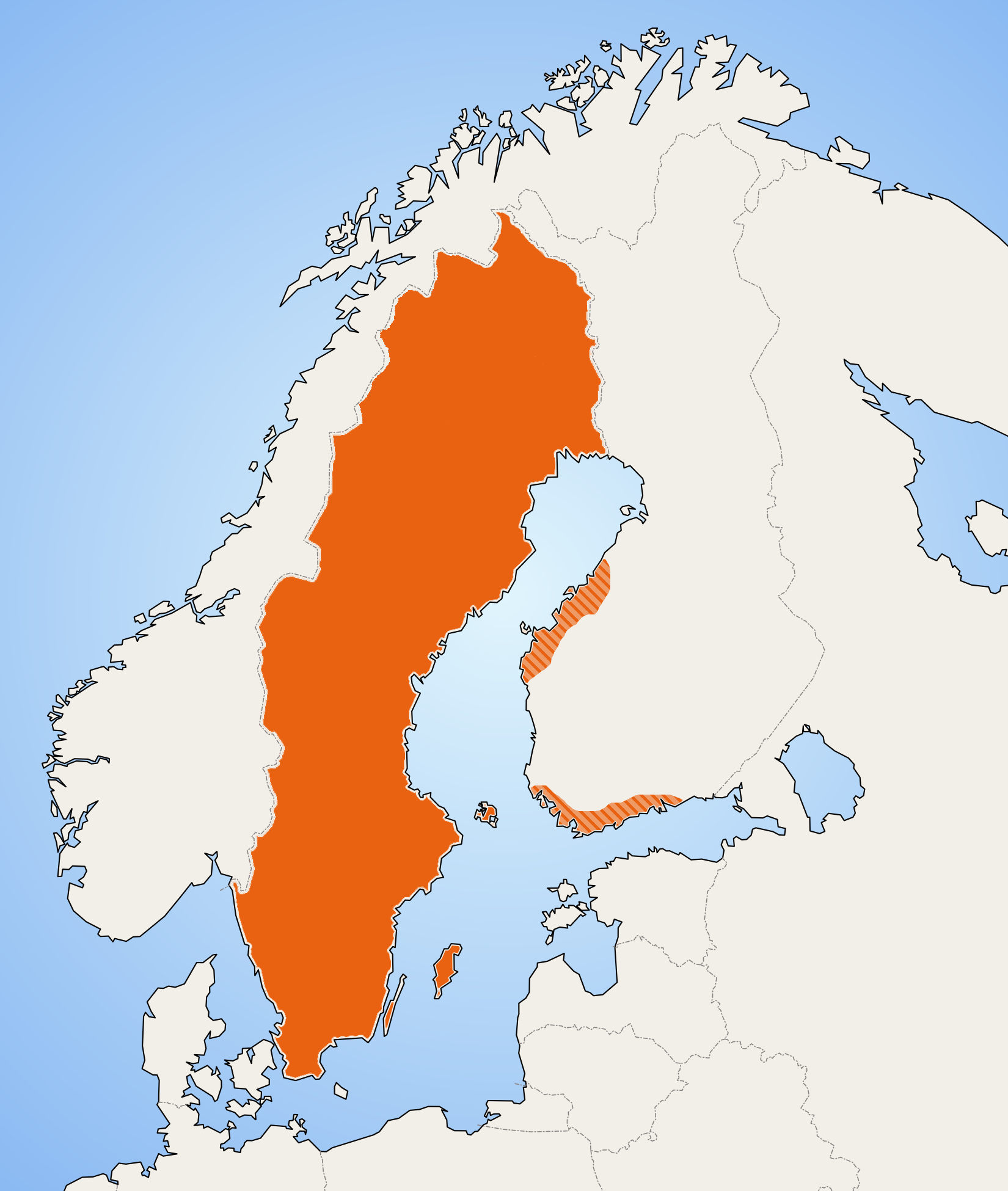 Distribution of the Swedish language. Solid orange areas indicate where Swedish is most widely spoken and is primary official language. Hatched areas indicate the primary extent of the Swedish-speaking minority in Finland.